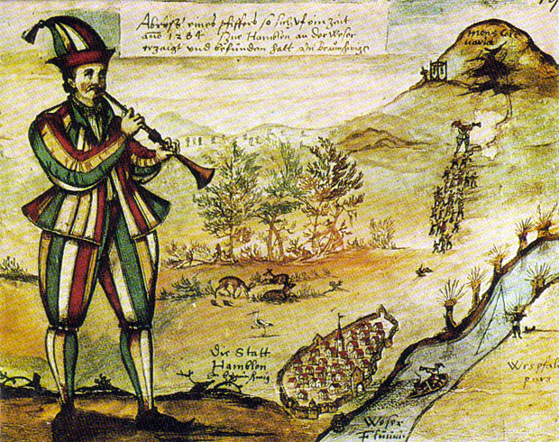 The oldest picture of the Pied Piper copied from the glass window of the Market Church in Hameln/Hamelin Germany (c.1300-1633).